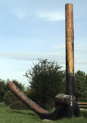 László Paizs: Sculpture. Miskolc, Hungary